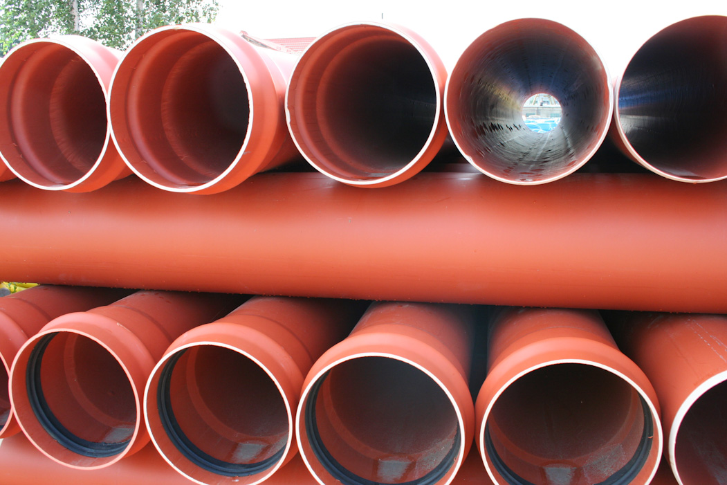 PVC sewer pipe